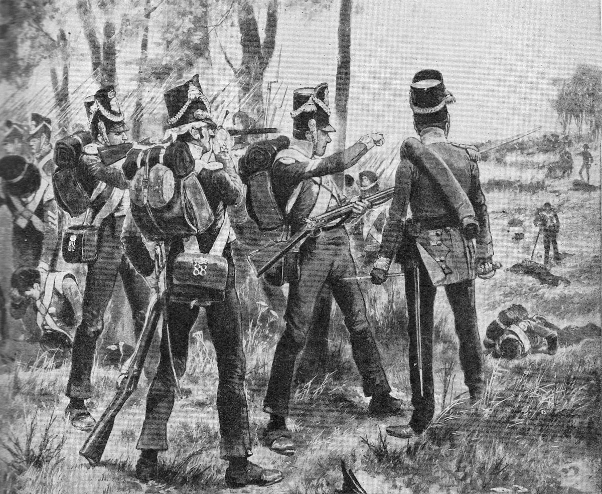 Clash of Casa de Salinas, 27 July 1809. British troops in retreat to Talavera were attacked by a French division under General Lapisse and suffered heavy losses during the fight.